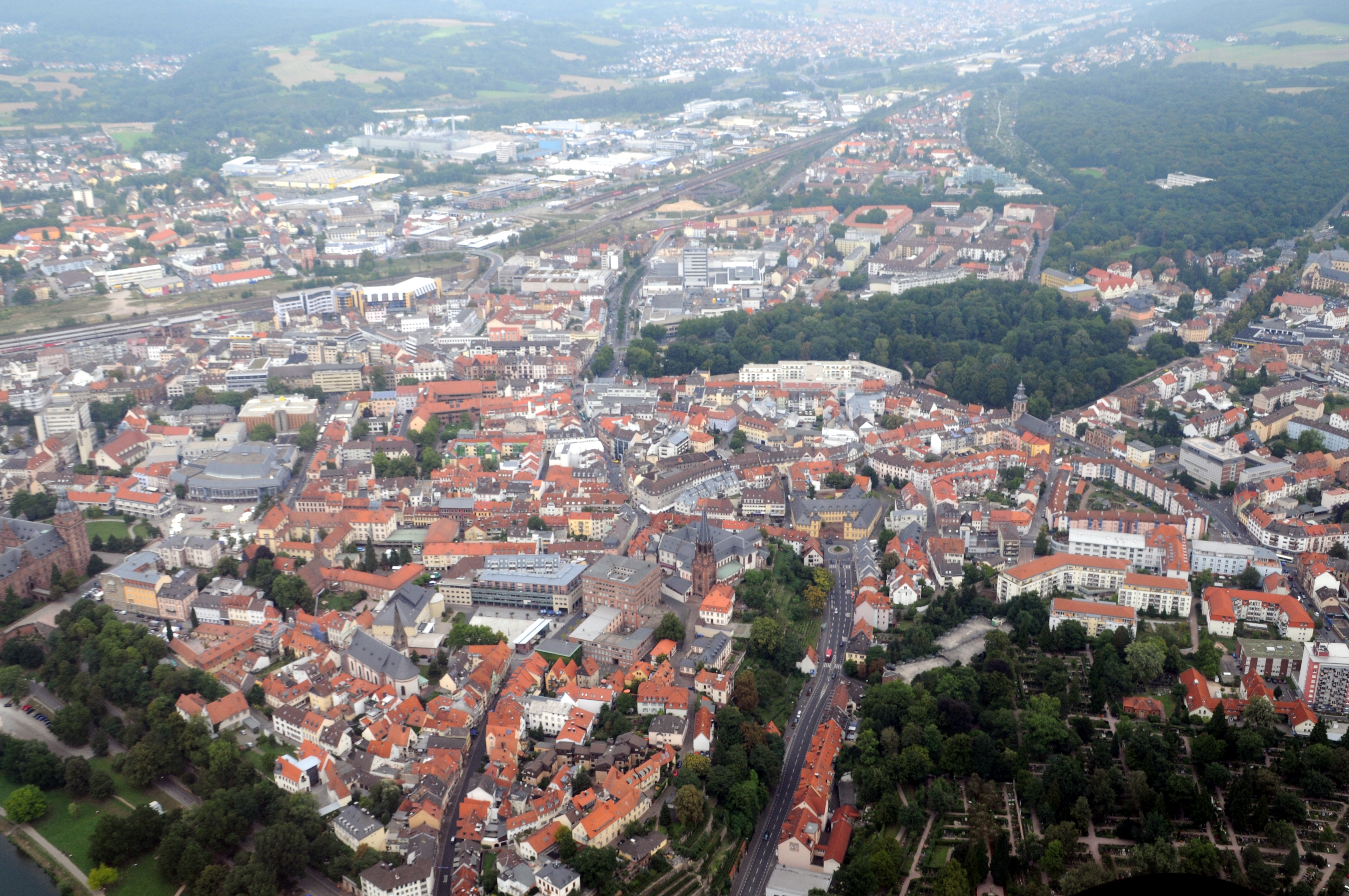 Aschaffenburg, Bavaria, Germany, aerial photograph